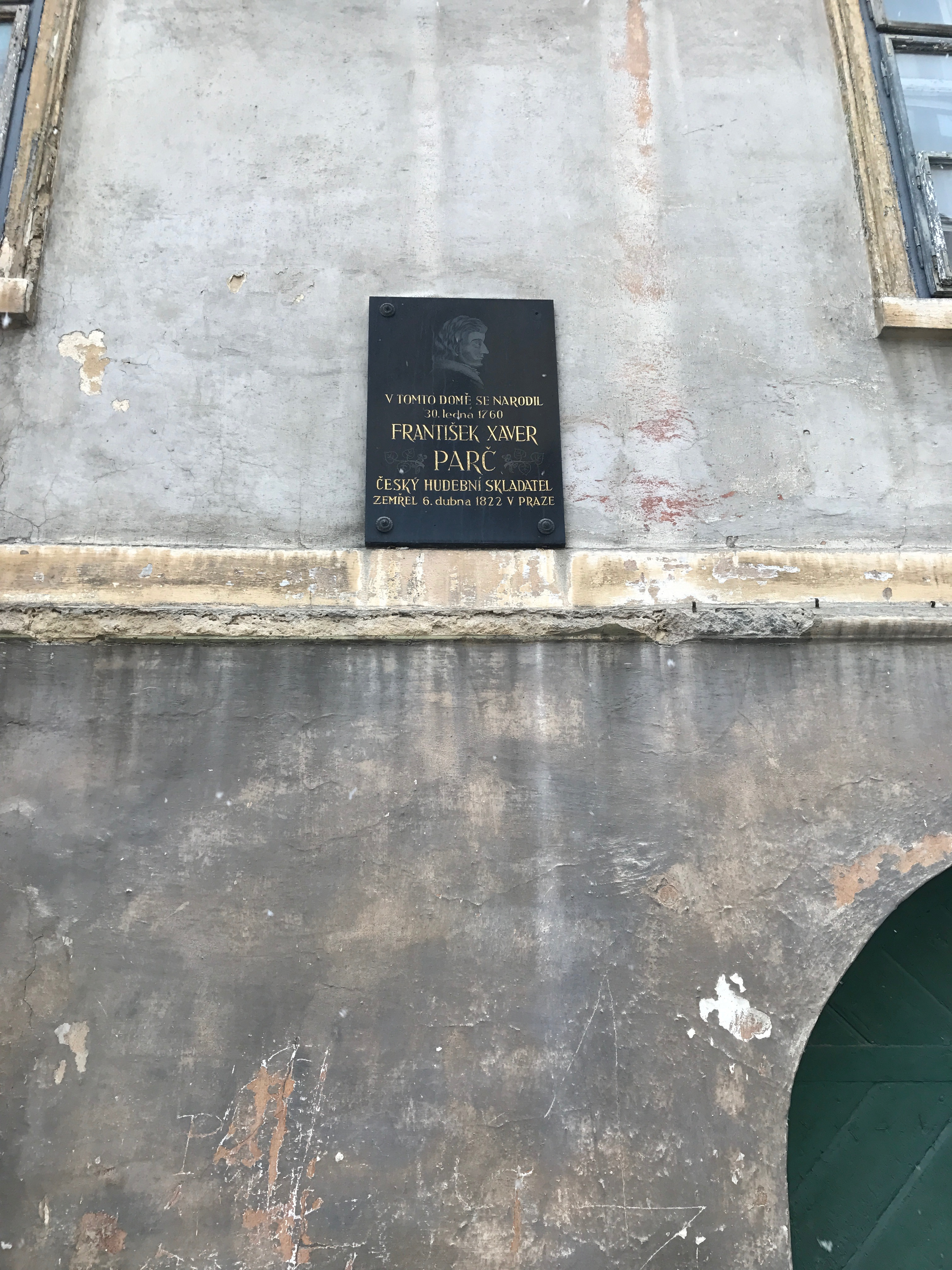 František Xaver Partsch, memorial in Duchcov, G. Casanovy 17/1.